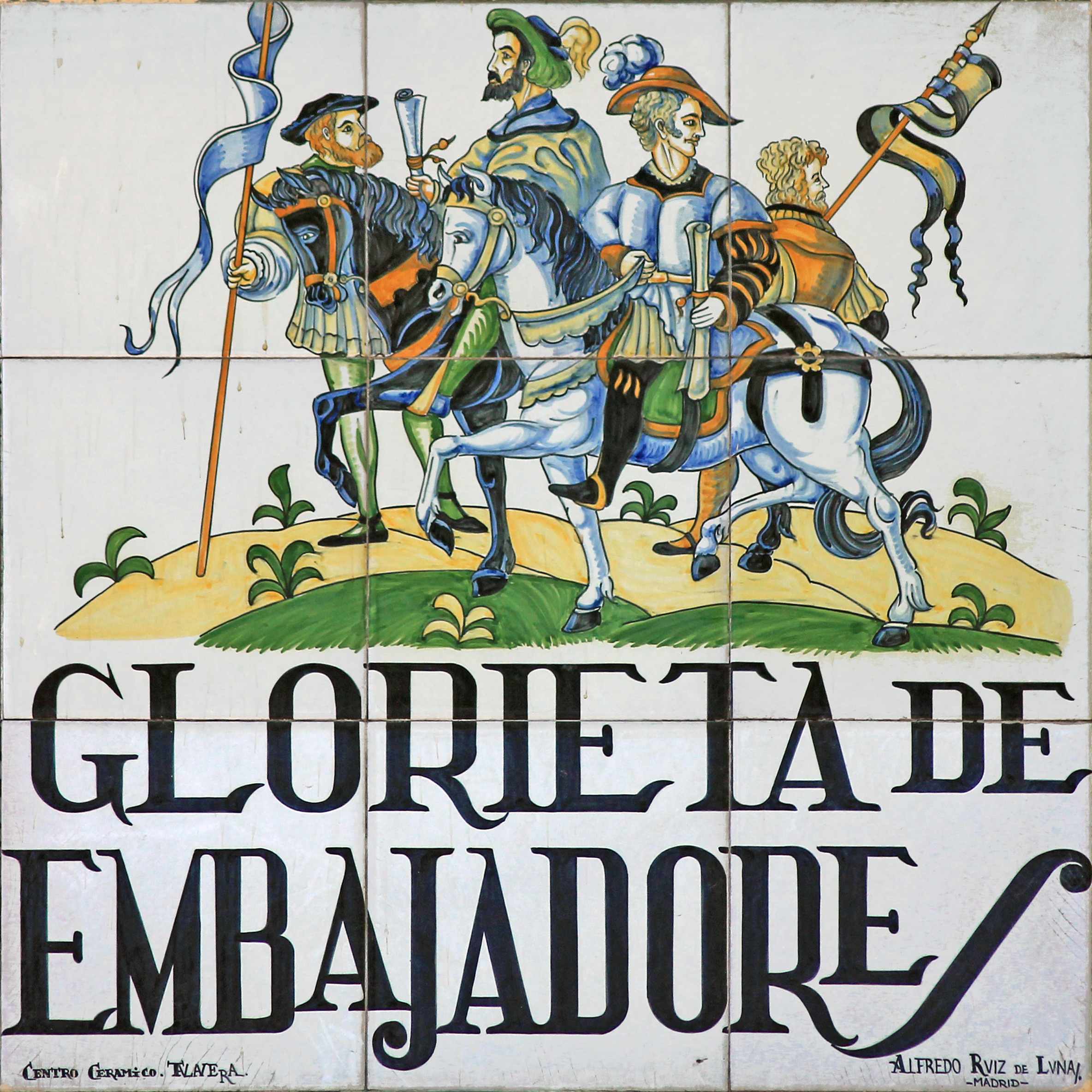 Sign of Glorieta de Embajadores (square) in Madrid (Spain).